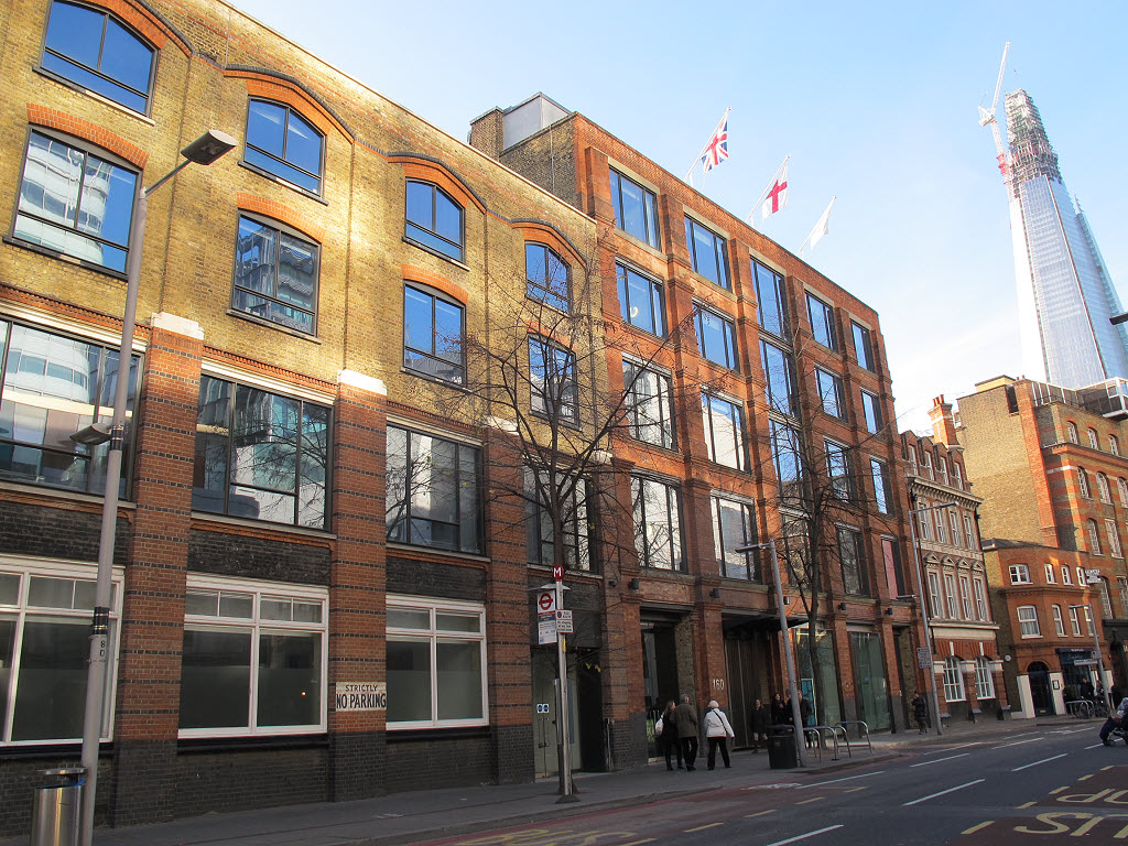 Southwark Council Offices